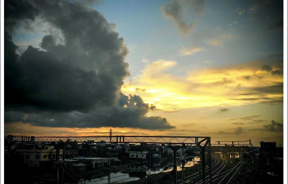 Aerial view of Muzaffarpur Junction with sunset view.